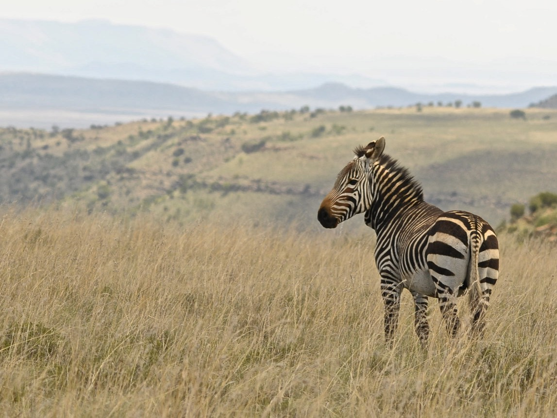 Cape Mountain Zebra